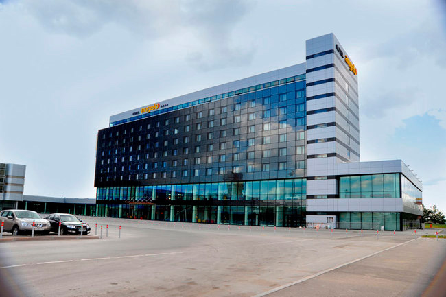 Image of the Angelo Hotel in Yekaterinburg beside the Koltsovo International Airport.